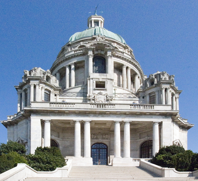 Ashton Memorial. A tribute to the wife of Lord Ashton built in 1907. Located in Williamson park Lancaster